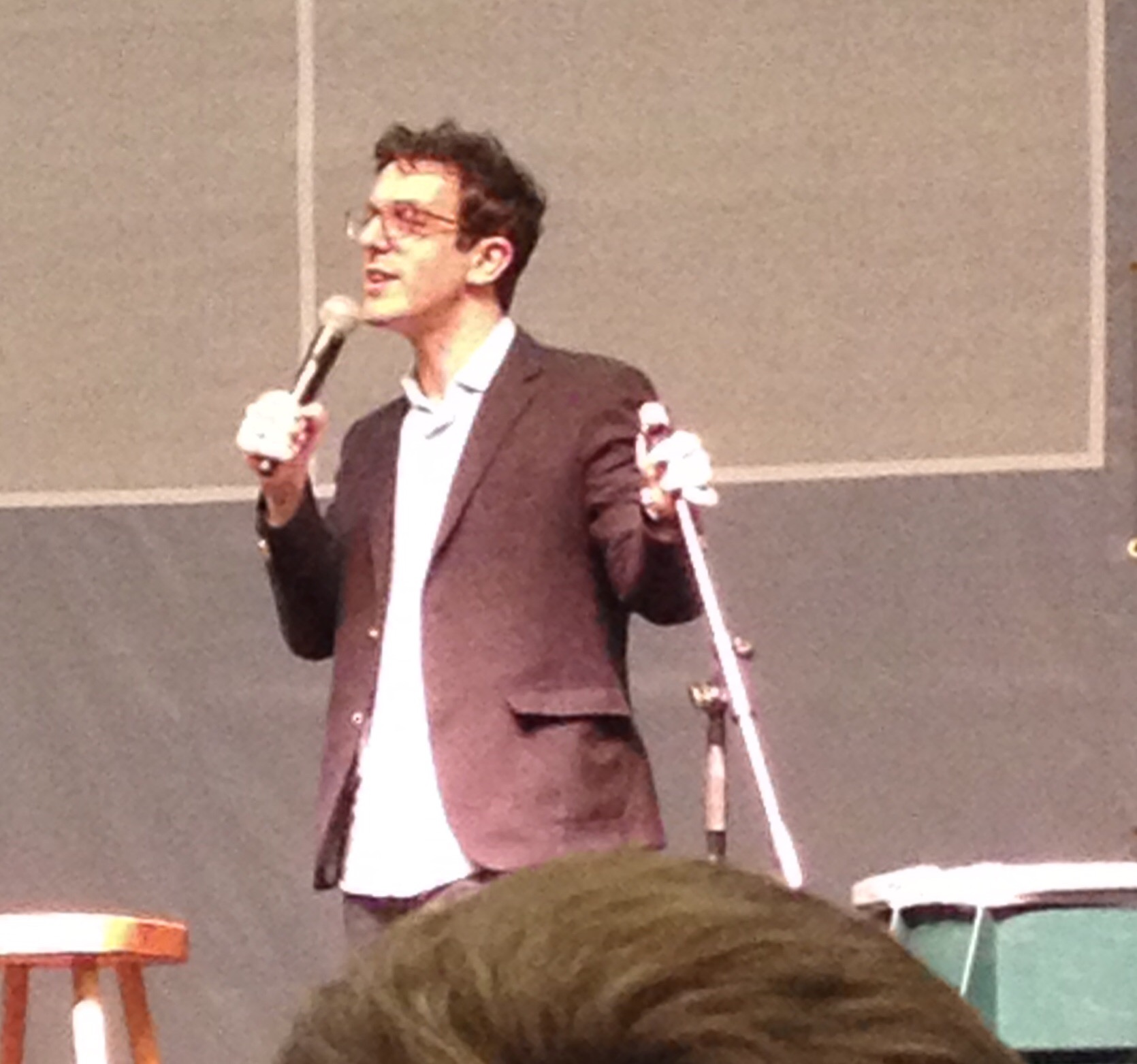 BJ Novak performing comedy in September 2013